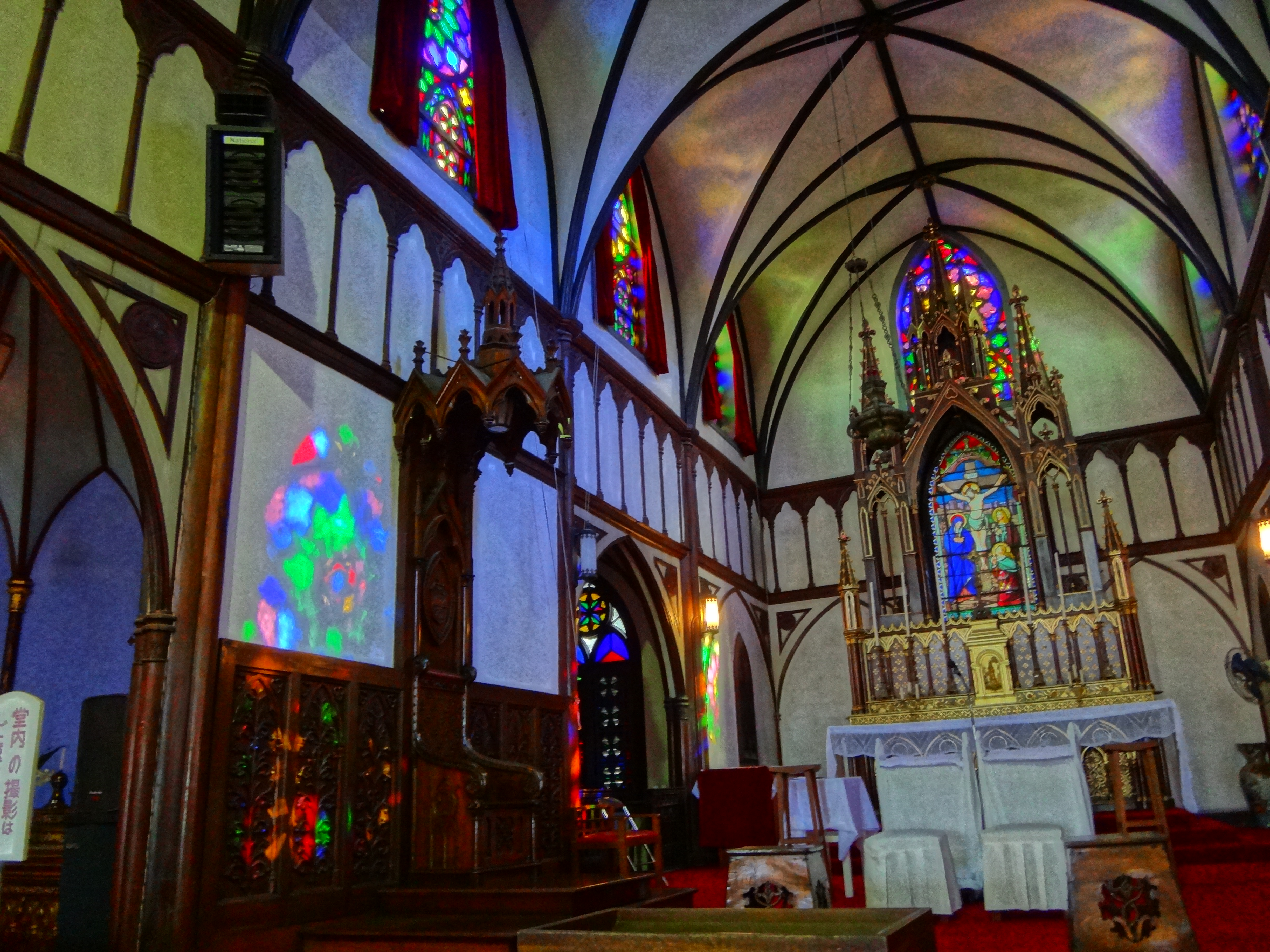 Altar of Oura Church